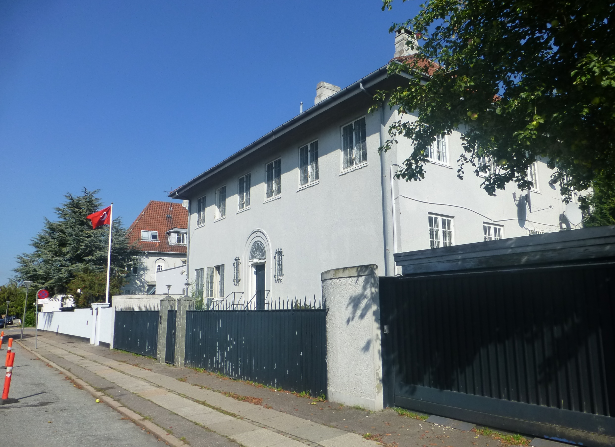 A part of the embassy of Turkey at Vestagervej in Hellerup in Copenhagen. The address of the embassy is Rosbæksvej 15.